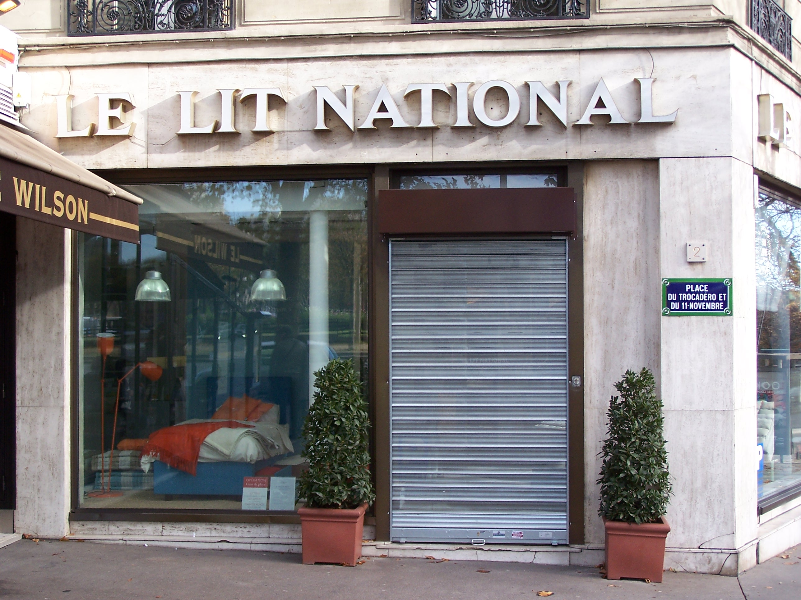 Shop « Le Lit national » at place du Trocadéro in Paris